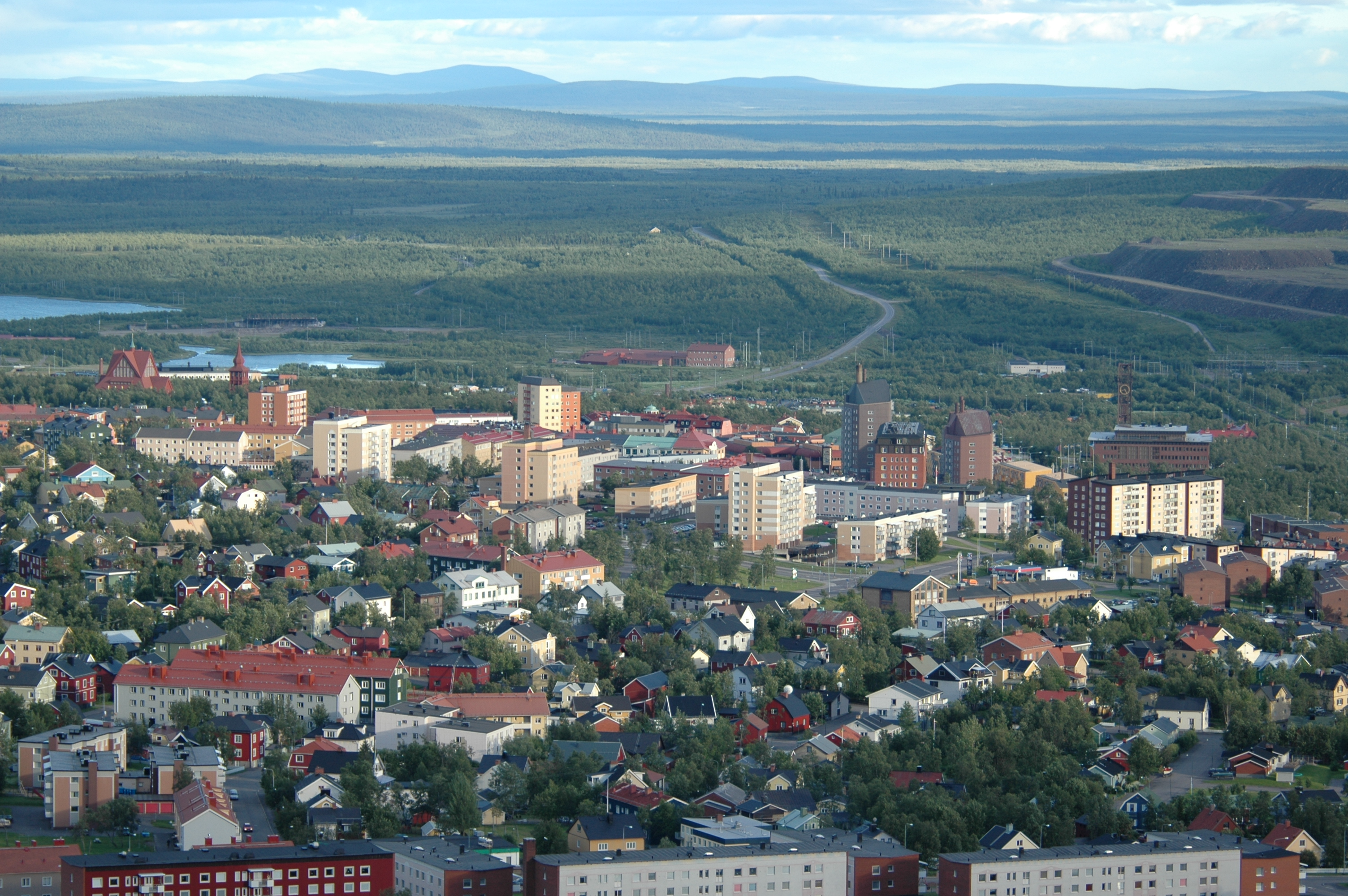 Central Kiruna photograped from Luossavaara